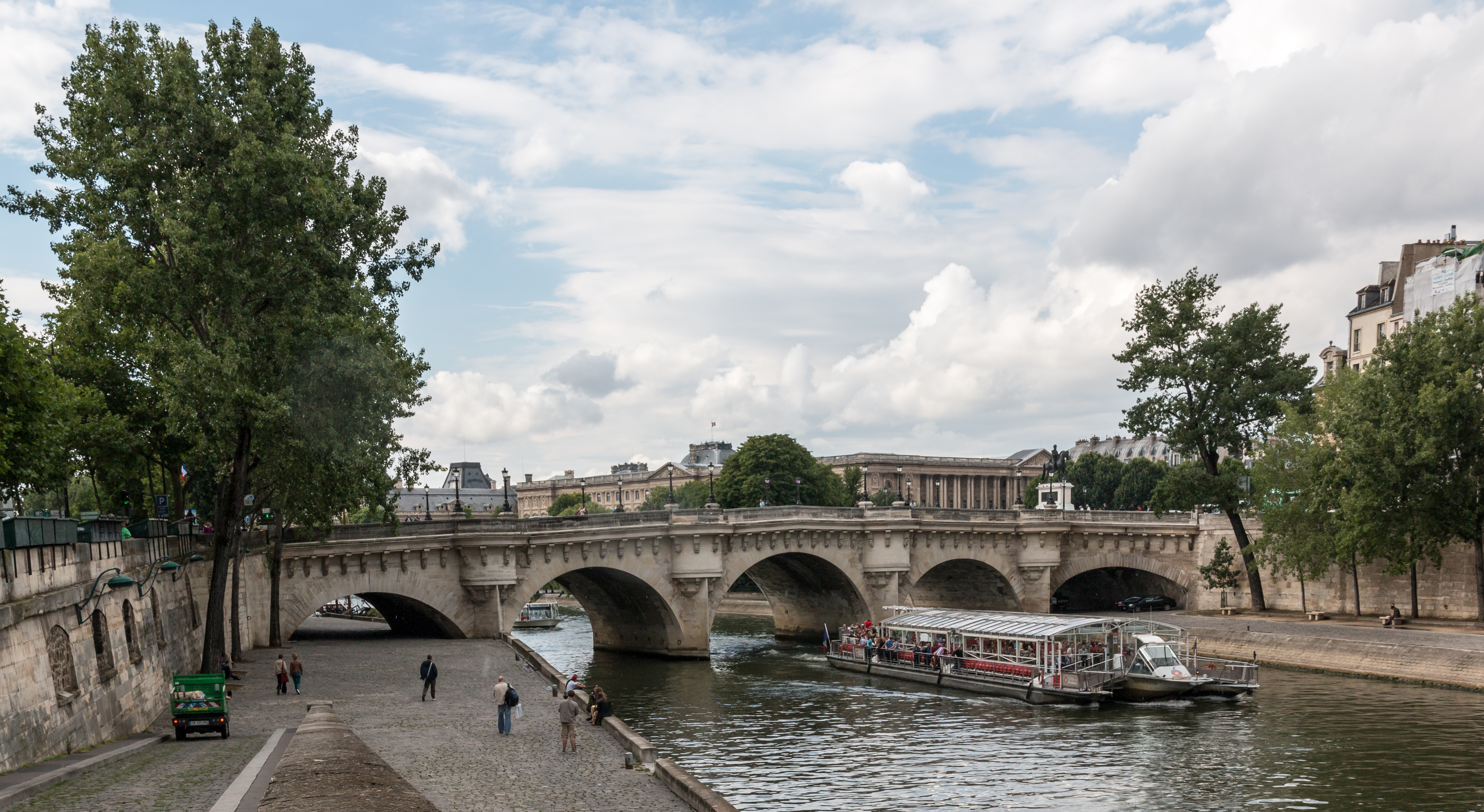 Pont Neuf, Paris, France